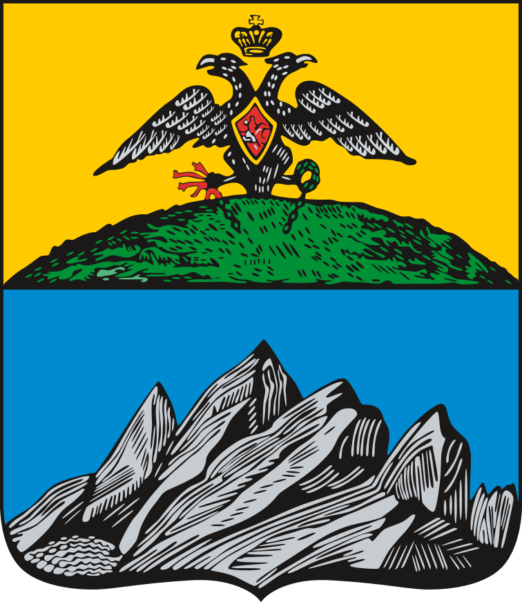 Pyatigorsk (Stavropol krai), coat of arms (1842)